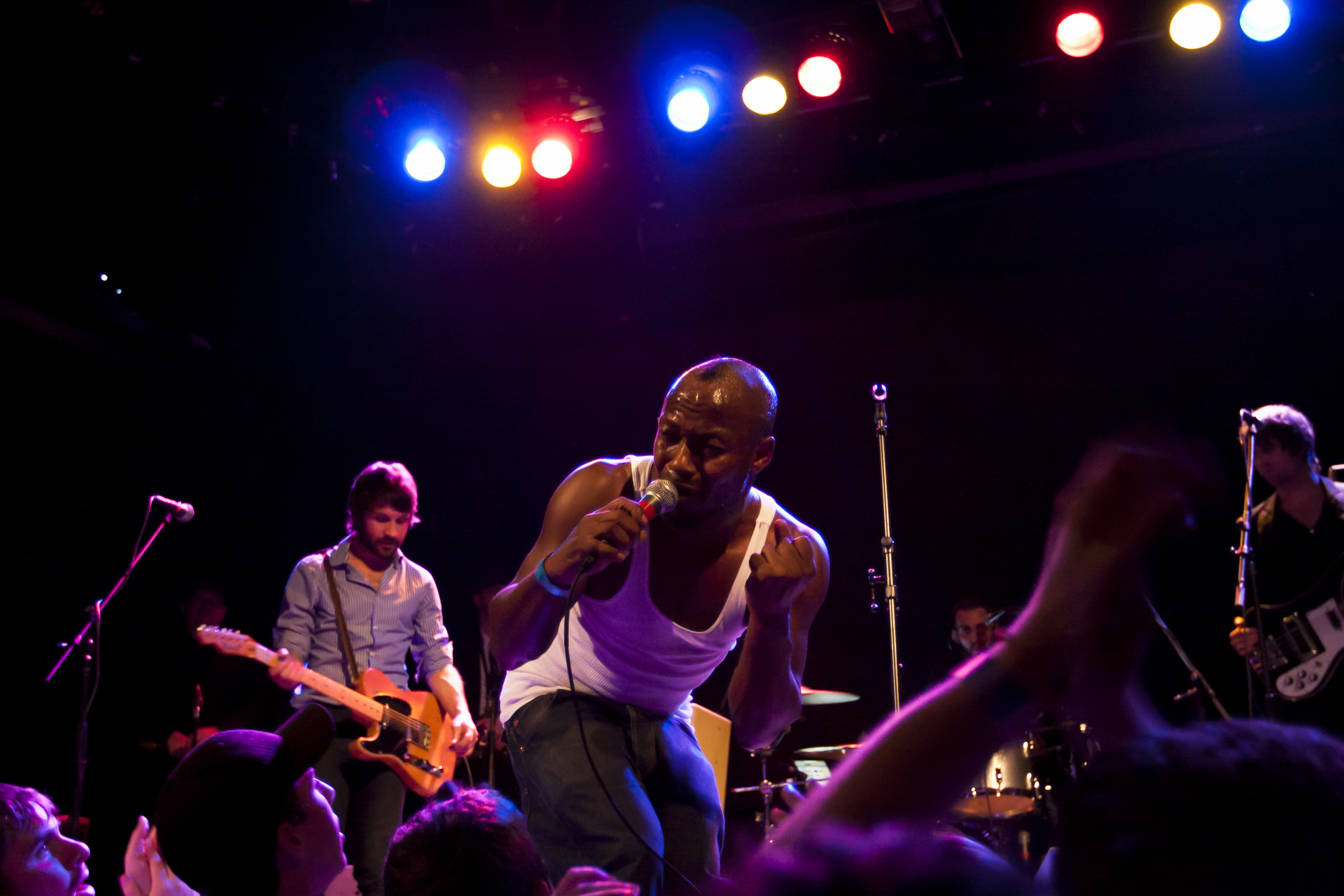 The Heavy rocking the Bowery Ballroom - October 2010